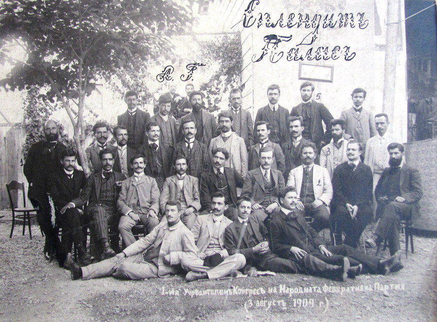 Delegates to the First Congres of NFP (Bulgarian section)